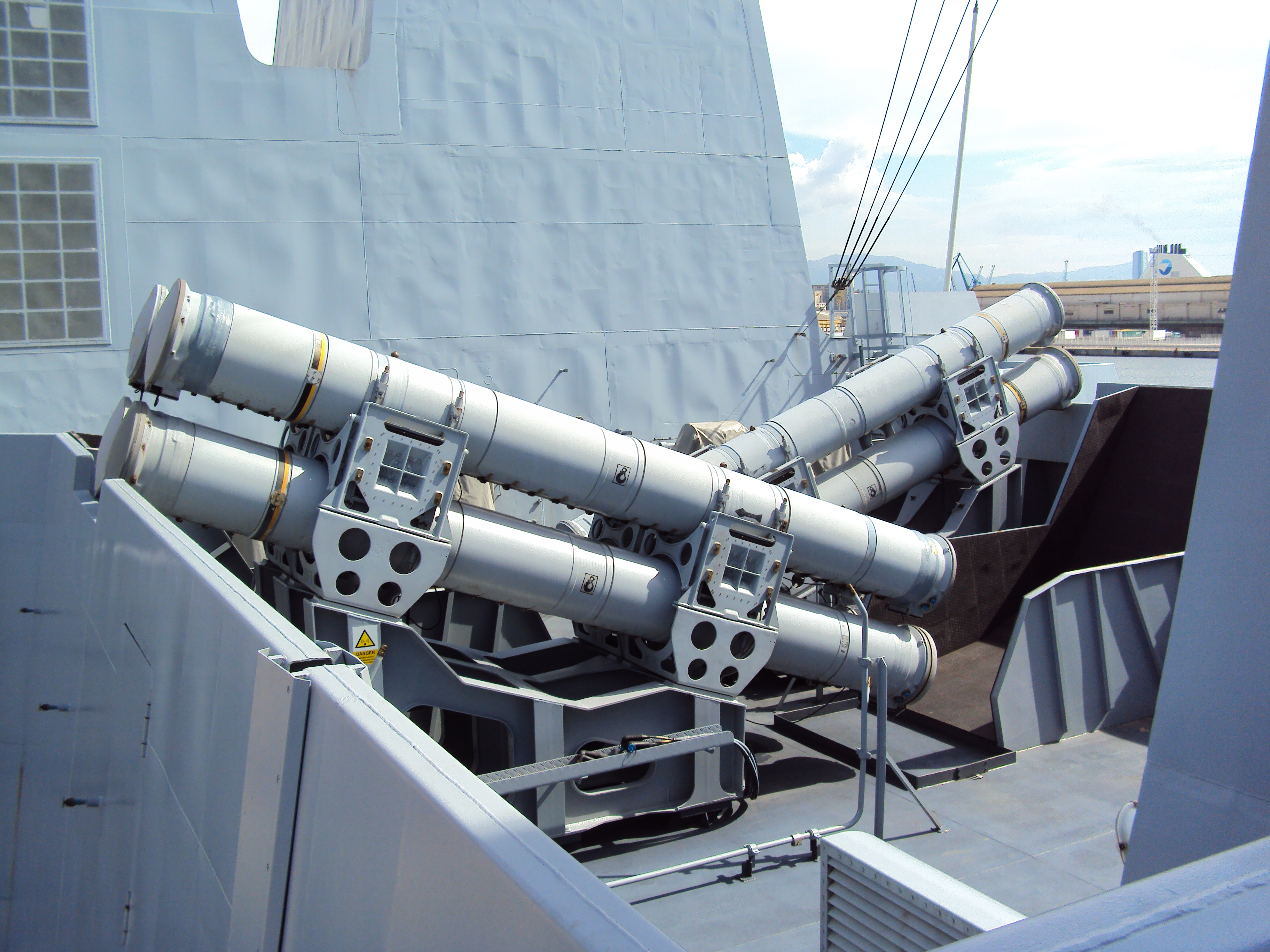 Exocet launch platform of the Forbin